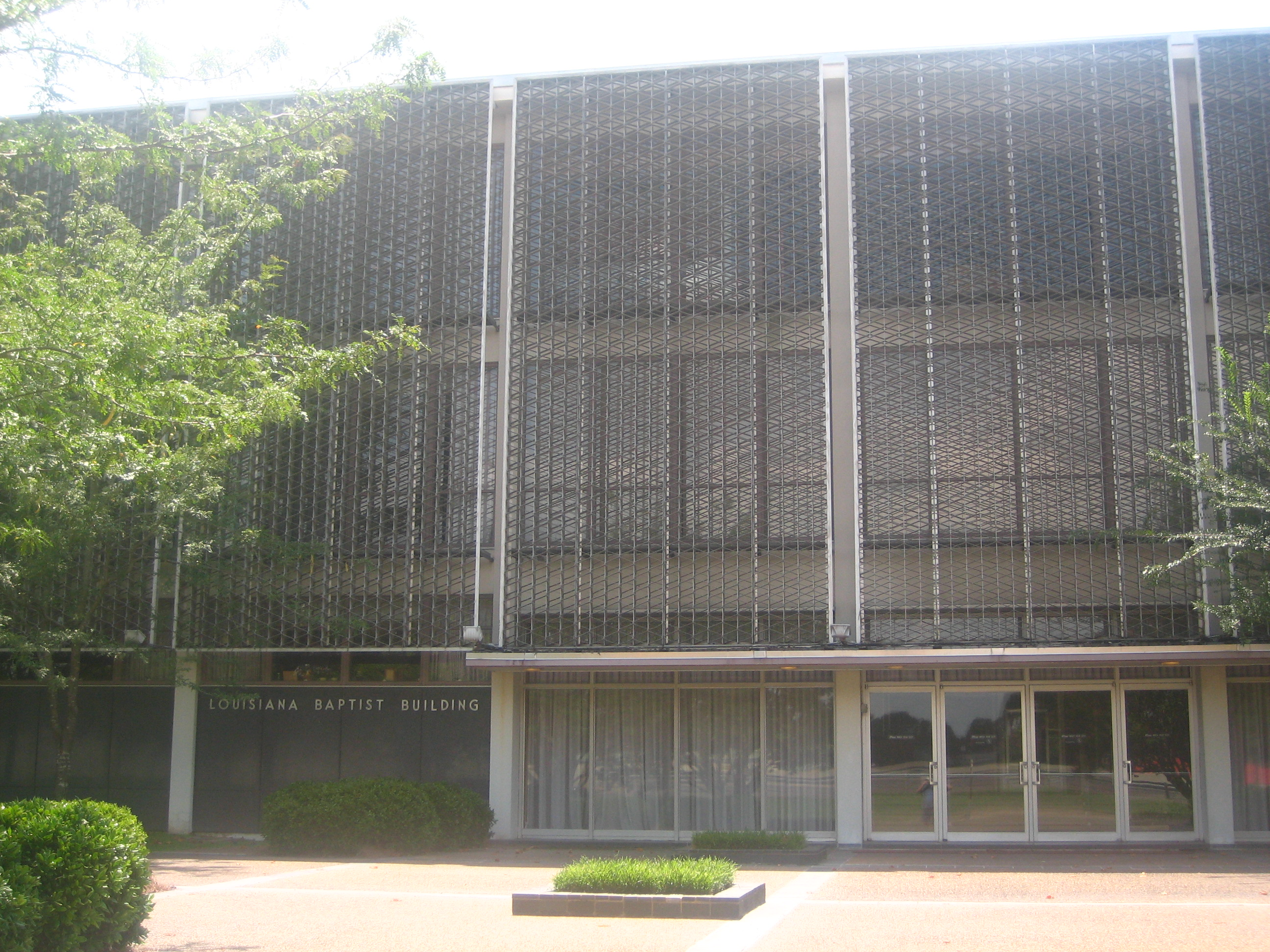 Louisiana Baptist Convention headquarters. I took photo on Aug. 1, 2008.Billy Hathorn (talk) 07:12, 27 September 2008 (UTC)